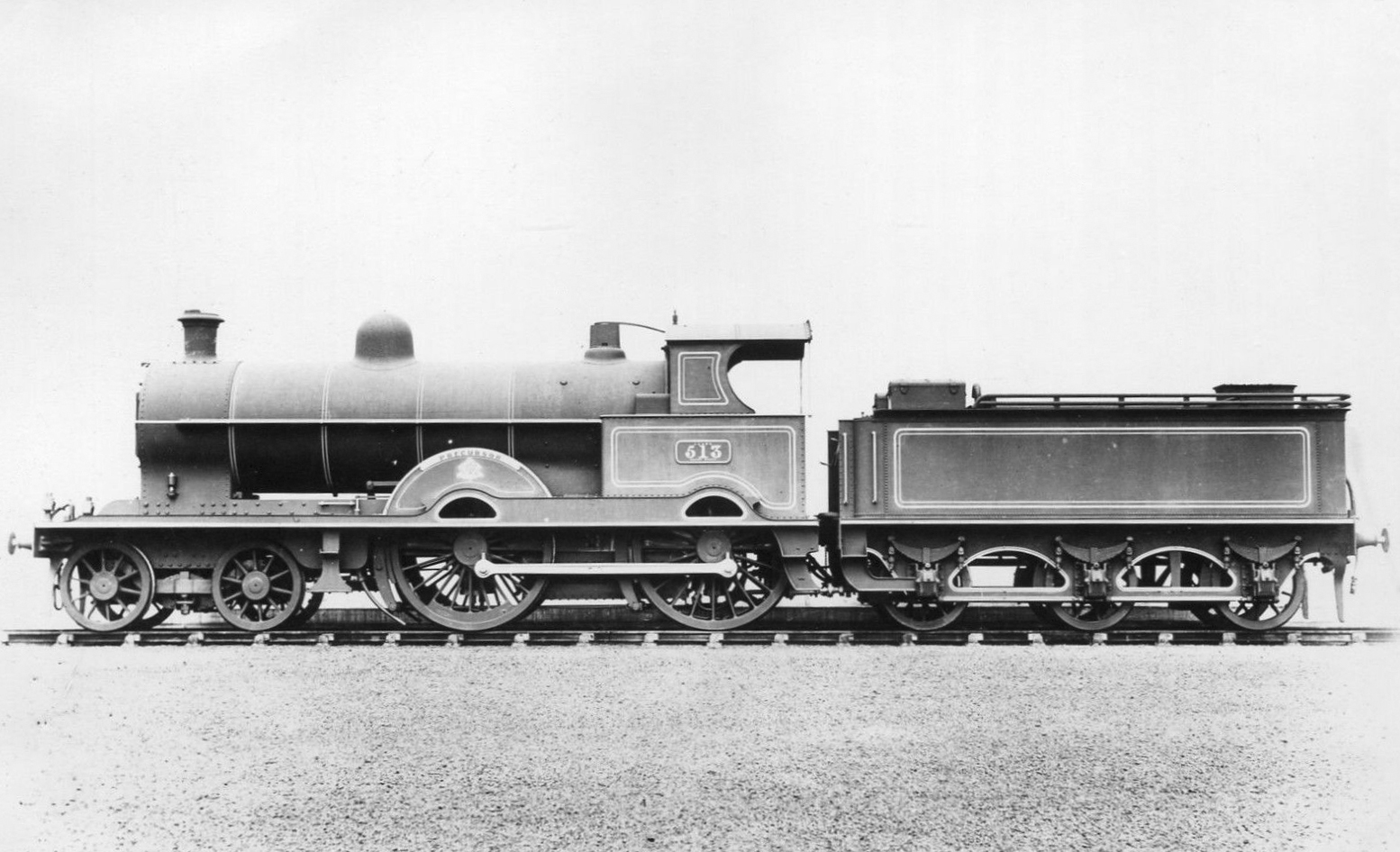 Photograph of LNWR engine No. 513 'Precursor'